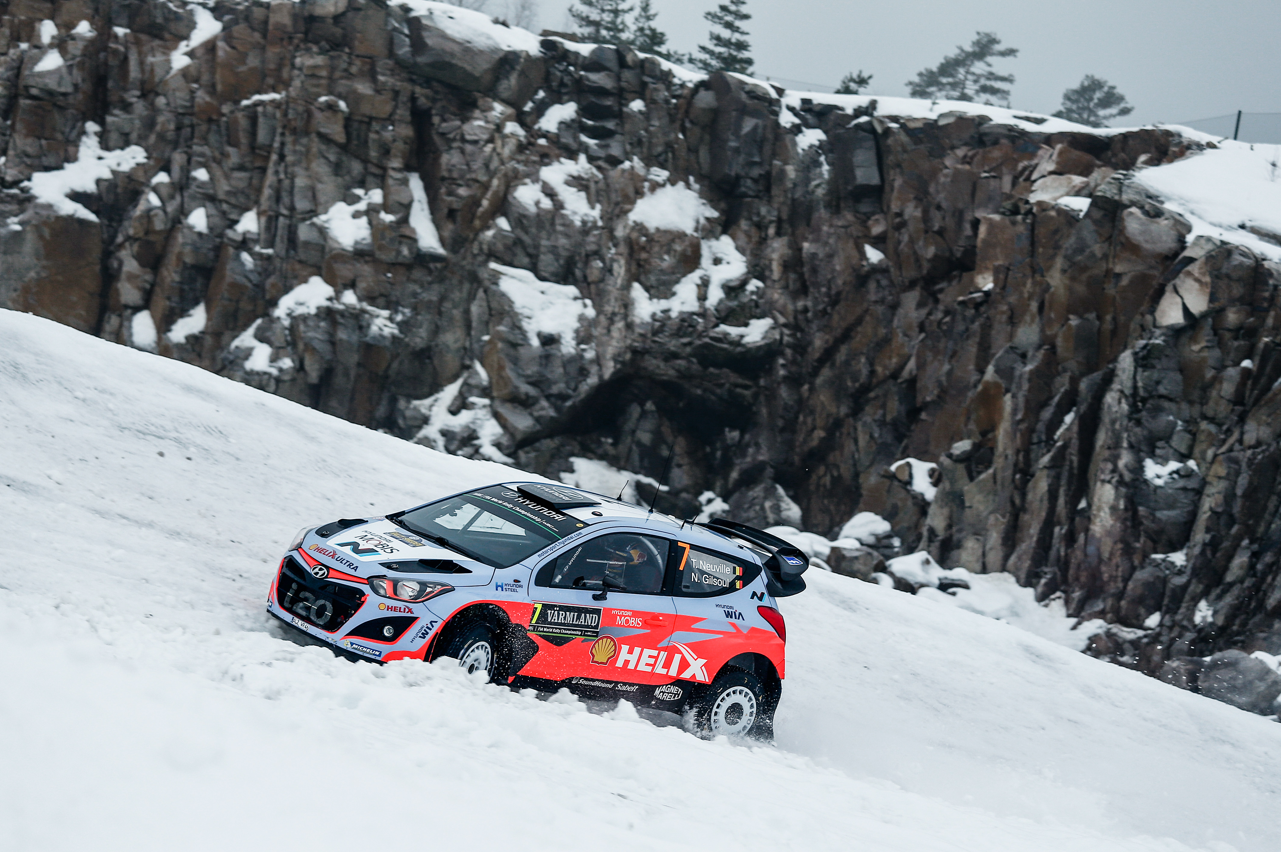 Thierry Neuville and co-driver Nicolas Gilsoul in their Hyundai i20 WRC at the 2015 Rally Sweden.